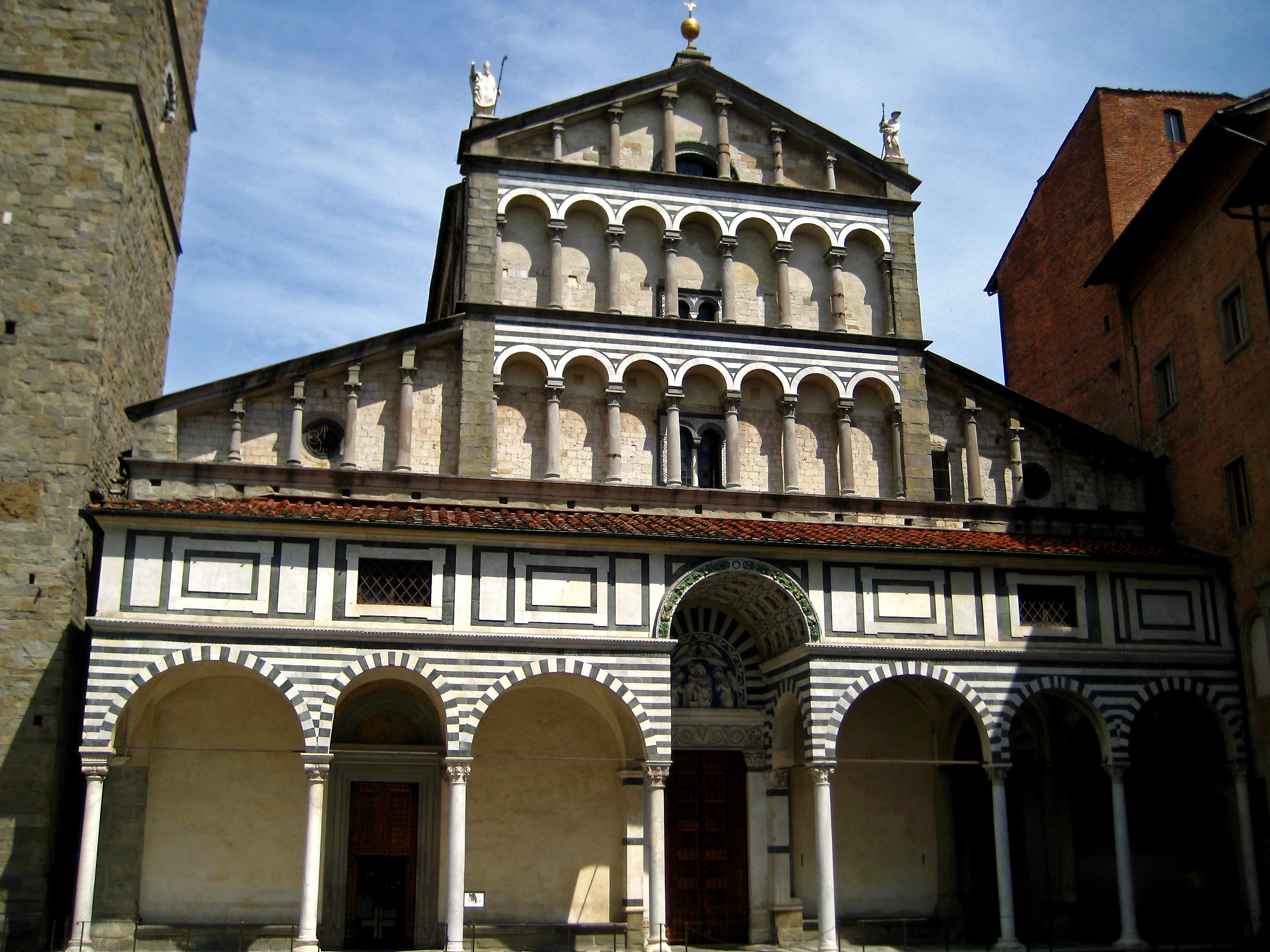 The Duomo in Pistoia, Tuscany